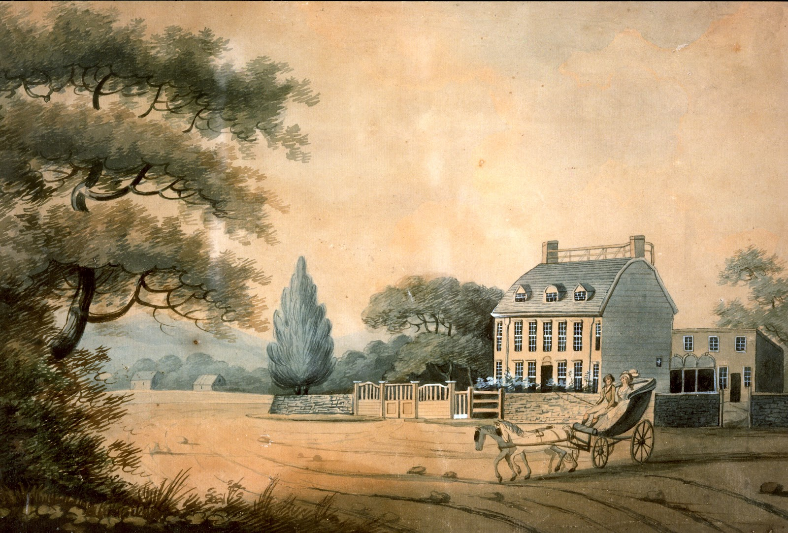 Peacefield before the 1800 addition was added